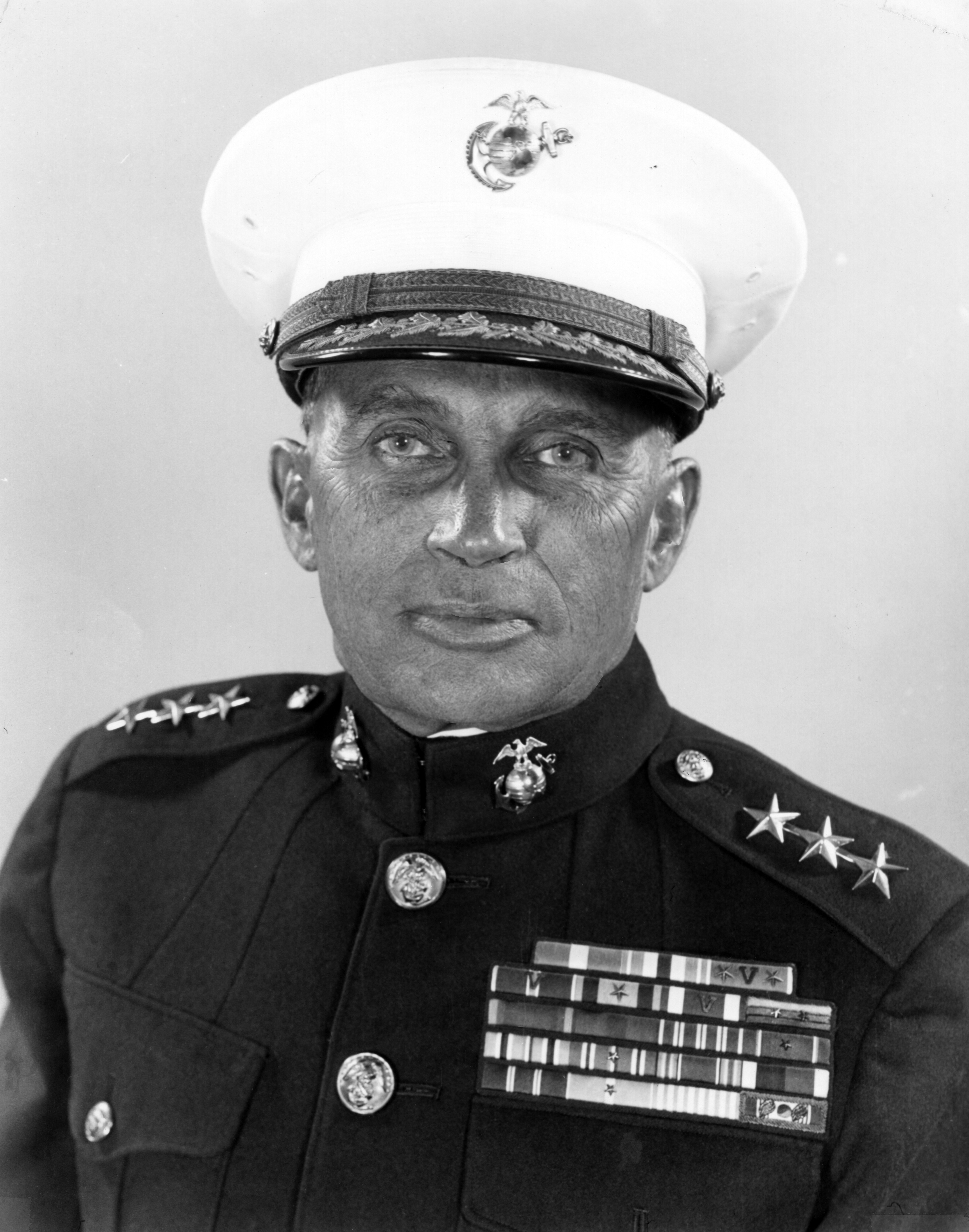 Edward Walter Snedeker (February 19, 1903 - May 5, 1995) was a highly decorated officer of the United States Marine Corps with the rank of Lieutenant General. He was decorated with Navy Cross, the United States military's second-highest decoration awarded for valor in combat, for his service as Commanding officer of 7th Marine Regiment during the Battle of Okinawa in June 1945. He completed his career as Commandant of the Marine Corps Schools, Quantico on July 1, 1963. Defense Department phooto (Marine Corps) A556075